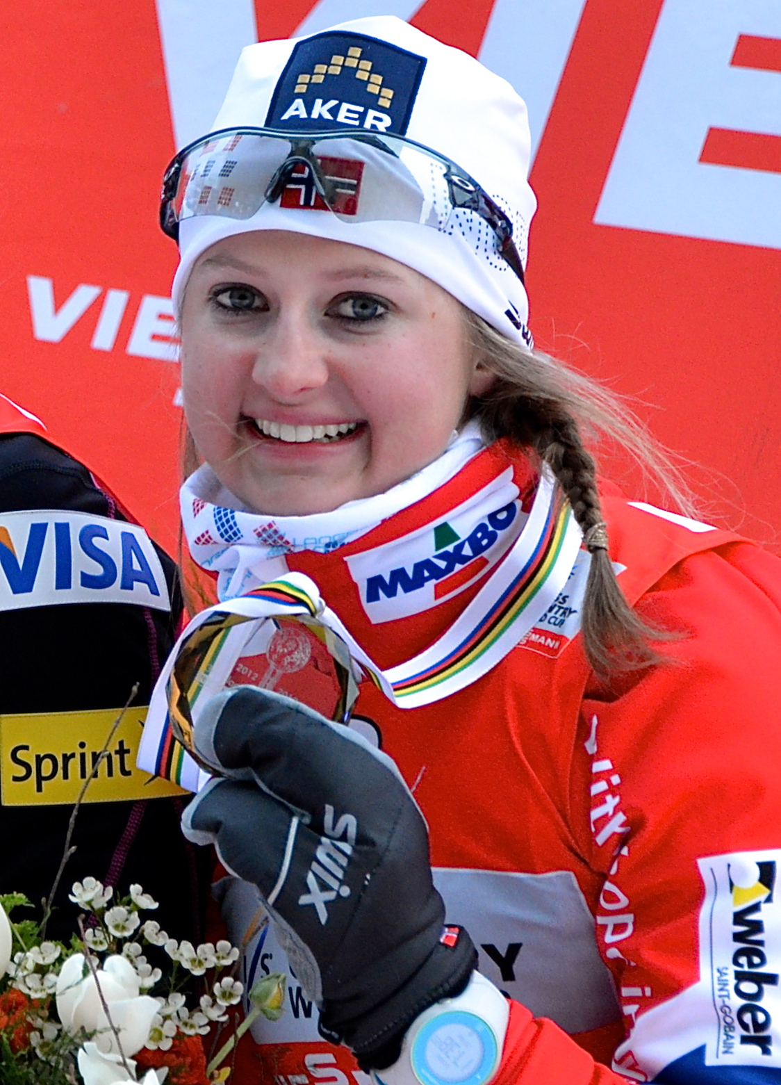 Ingvild Flugstad Østberg at the Royal Palace Sprint, part of the FIS World Cup 2012/2013, in Stockholm on March 20, 2013.